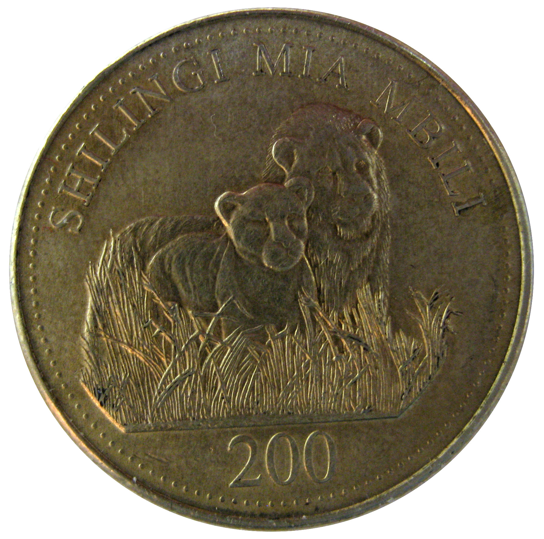 200 Tanzanian Shillings, front, displaying lions.